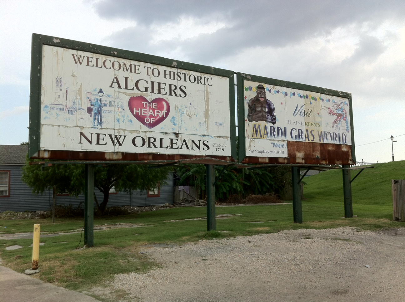 Algiers sign on Bouny Street near Delaronde Street in Algiers Point, New Orleans, Louisiana.